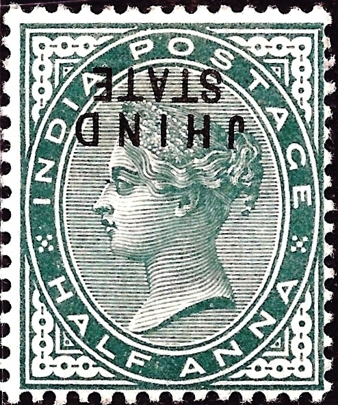 Half Anna Queen Victoria Head (blue-green colour) overprinted with "JHIND STATE” inverted (between 1886 and 1899). Postage stamp of Jhind state, an Indian convention state in the Punjab. Ser No 17a for Jhind in Stanley Gibbons Stamp Catalogue Commonwealth & British Empire Stamps (1840-1970). (2008). London. Ref pg 285-286. Own work. From the collection of Brig A.P. Singh (self). This work created by the United Kingdom Government is in the public domain. This is because it is one of the following: It is a photograph taken prior to 1 June 1957; or It was published prior to 1969; or It is an artistic work other than a photograph or engraving (e.g. a painting) which was created prior to 1969. HMSO has declared that the expiry of Crown Copyrights applies worldwide (ref: HMSO Email Reply)More information. See also Copyright and Crown copyright artistic works.